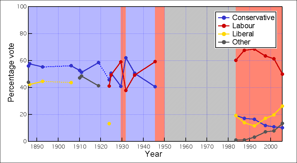 United Kingdom general election results for Sheffield Central constituency from its original creation in 1885 to its abolishion in 1950, and from its re-creation in 1983 to 2005. © Jeremy Atherton 2005.